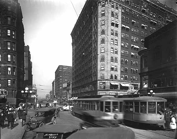 Hennepin Avenue at 6th Street, looking north. Minneapolis, Minnesota, USA, 1920. The building on the left is the Masonic Temple. The large building in the middle right in the Plymouth Building. In the background slightly to the left is the Lumber Exchange. The building on the far right was demolished in 1979 to make way for the Minneapolis City Center.